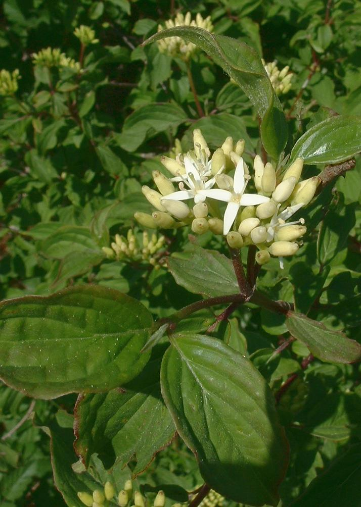 Cornouiller sanguin, photo J.F. Gaffard, Bucey-lès-Gy, mai 2004